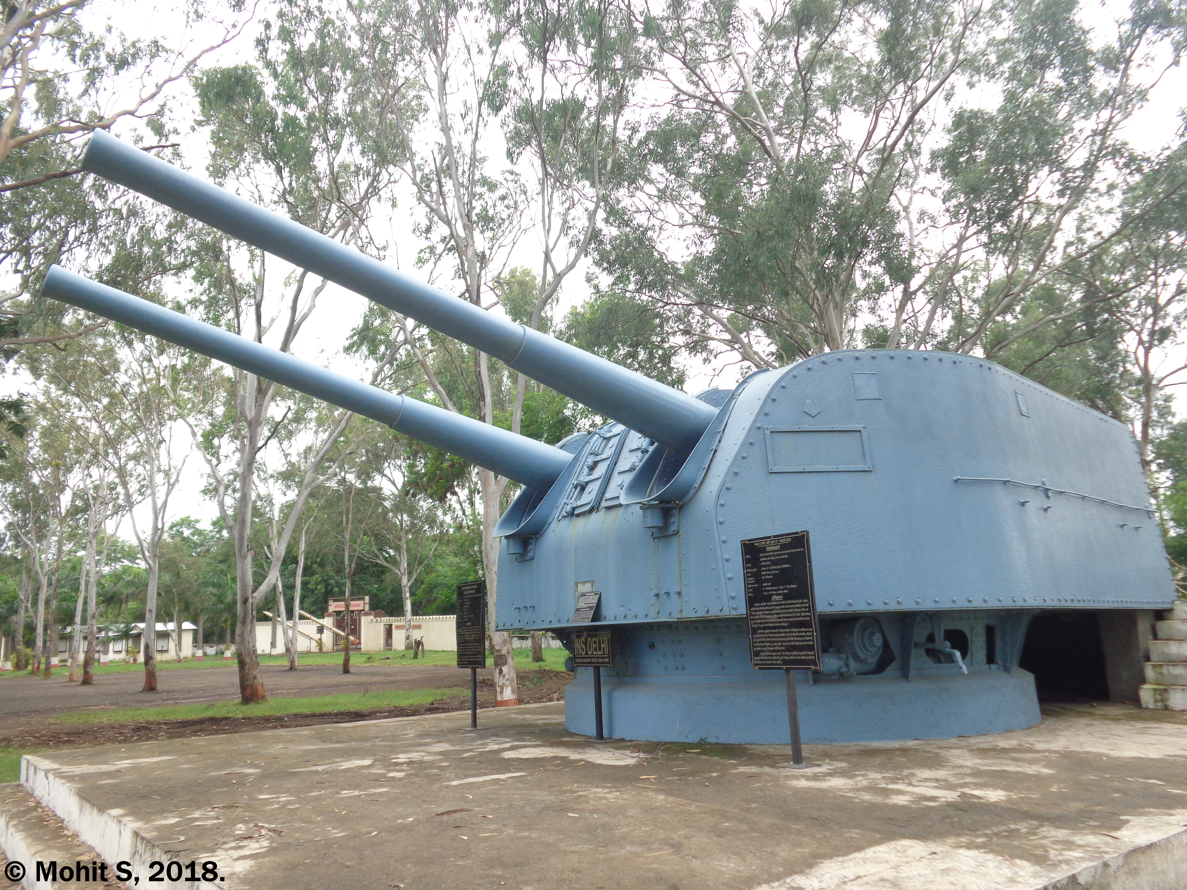 INS Delhi was built for the Royal Navy in 1933 as HMS Achilles, and commissioned into the New Zealand Division of the Royal Navy in 1937 as HMNZS Achilles. She was returned to the Royal Navy at the end of the Second World War and in 1948 was sold to the Royal Indian Navy. The light cruiser was decommissioned and scrapped in 1978. The turret is mounted with BL 6 in Mk.XXIII (152 mm L/50) guns, twin turrets Mk.XXI Clicked from Sony DSC-W730